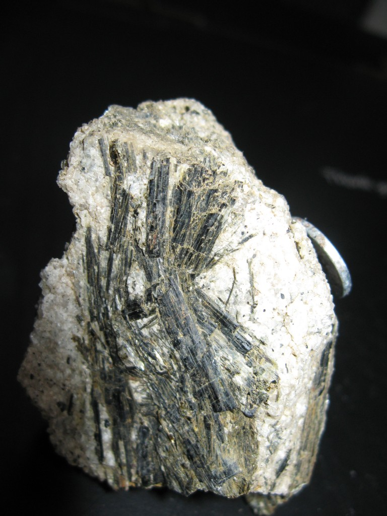 Gedrite, Magnetite Dimensions: 50mm x 30mm Locality: Beaver Meadow Road - State Route 9 Interchange, Haddam, Middlesex Co., Connecticut, USA Description: The crystal mass seen here is gedrite. The feldspar matrix contains enough grains of magnetite to make the whole specimen magnetic. (Note the magnet hanging on the back.)